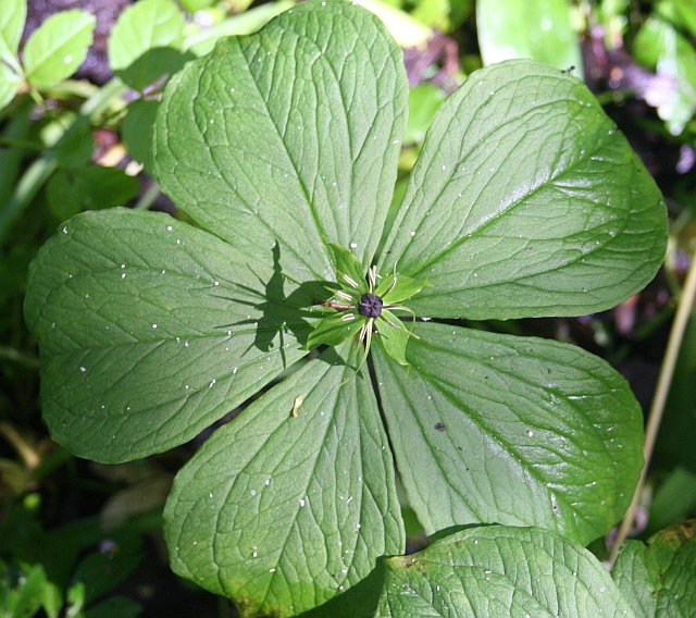 Herb Paris (Paris Quadrifolia) View direction = "From above". Normally I find this in the woods in dark shade, but many trees came down earlier in the year and this plant can be seen in sunlight with the shadow of the flower adding to the vertical information. As the latin name suggests this plant normally has four leaves, but can have several more.